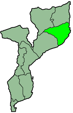 Map of Nampula Province, Mozambique